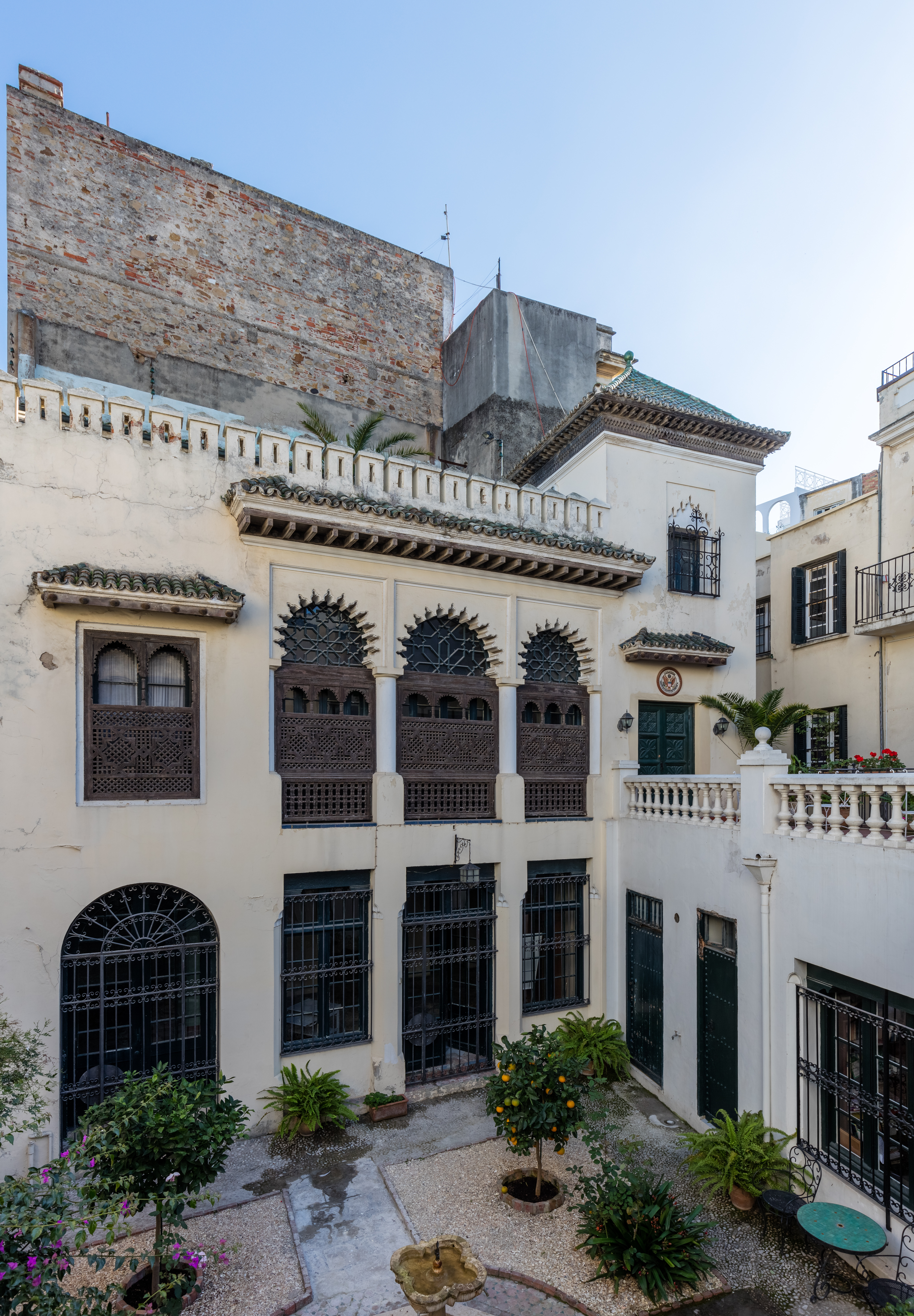 Old American Legation Museum, Tangier, Morocco